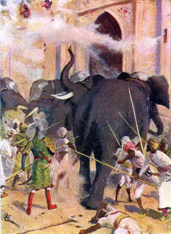 This history of India begins well before era of British colonization, during the age of the invasion of Alexander the Great, which was the west's first contact with the east. For much of the next millennium various Moslem lords rules parts of northern India. Finally, in the eighteenth century, France and Britain contested for control of the Asian trade centered in India, and for the following two centuries, India was Britain's most important colony.